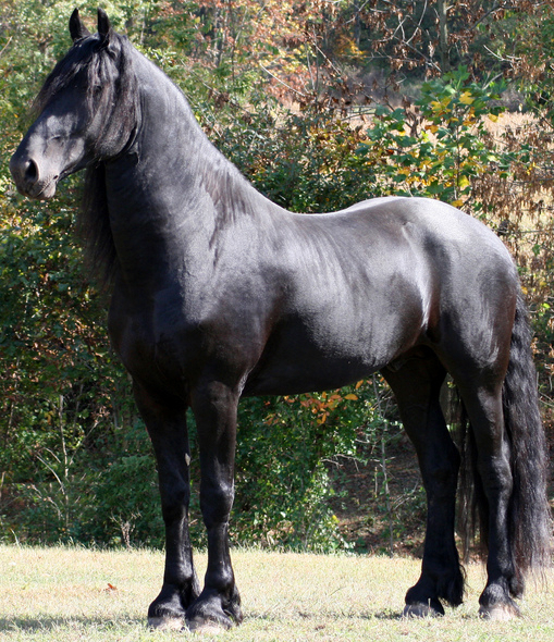 Male Friesian horse